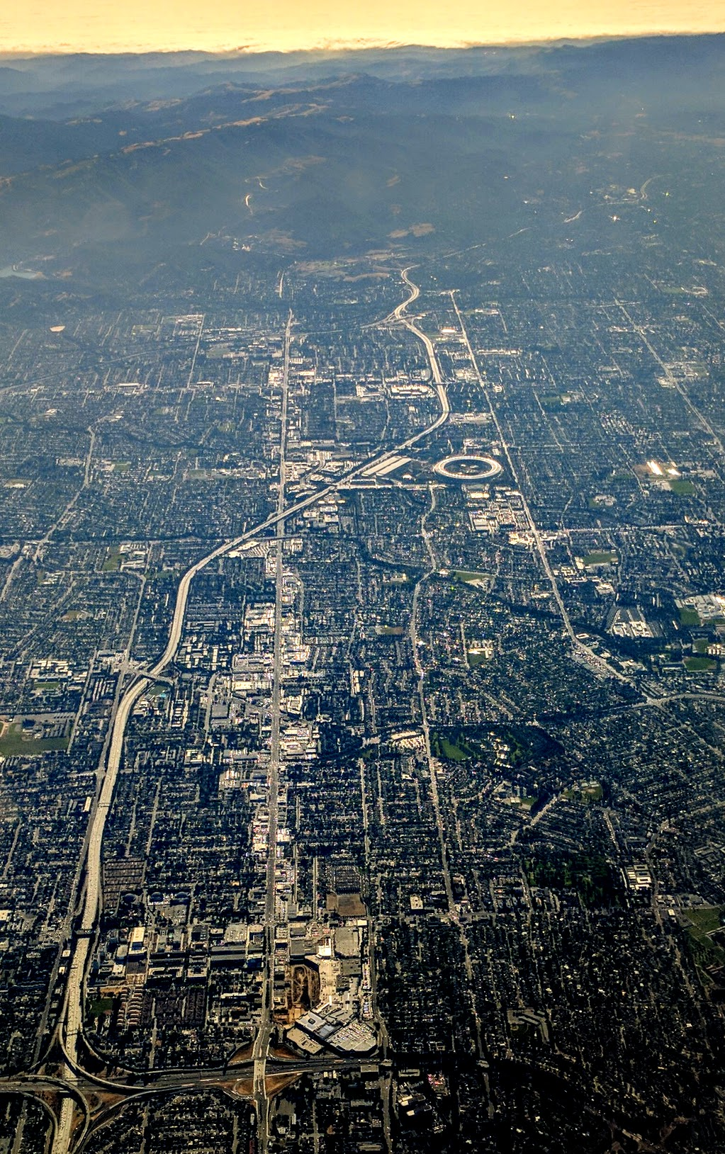 I-280 and Stevens Creek Blvd, San Jose and Cupertino, California, with Apple Campus 2, aerial looking west into the sun on takeoff from San José International Airport